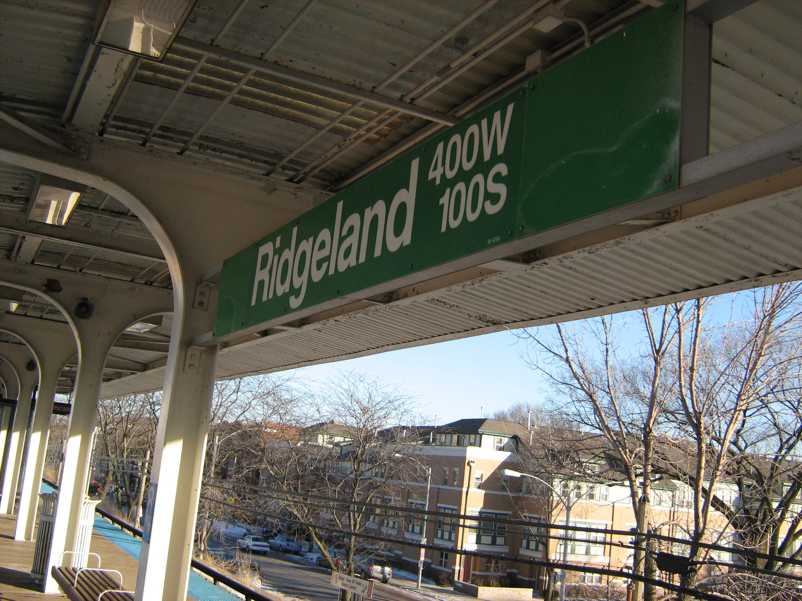 Ridgeland CTA Station